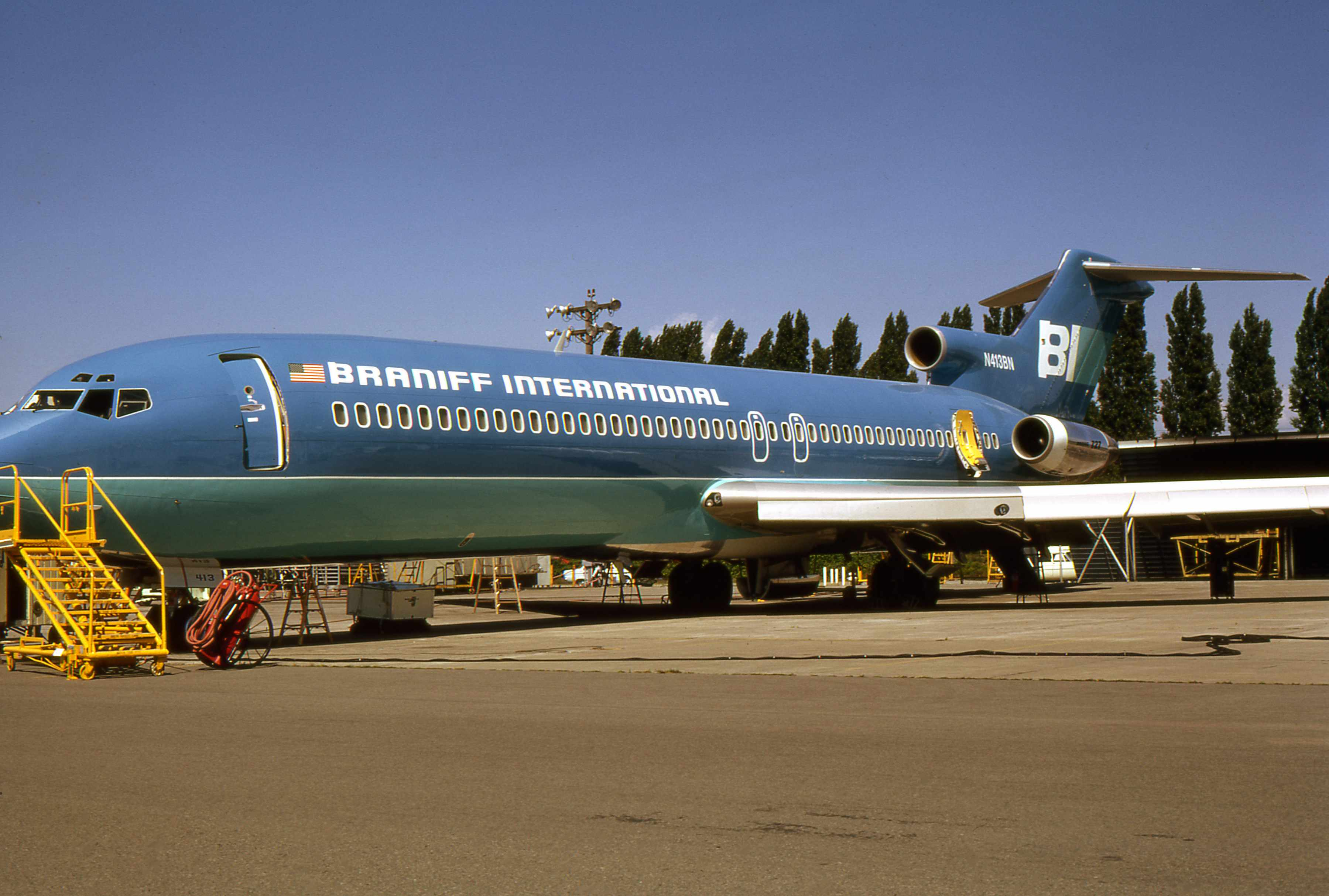 Delivered to Braniff International in late July 1972 in blue and blue light livery. Due to bankrupt the aircraft was sold to American Airlines on January 26, 1981 and registered N718AA. Here is taken at the Boeing Renton plant before being delivered.